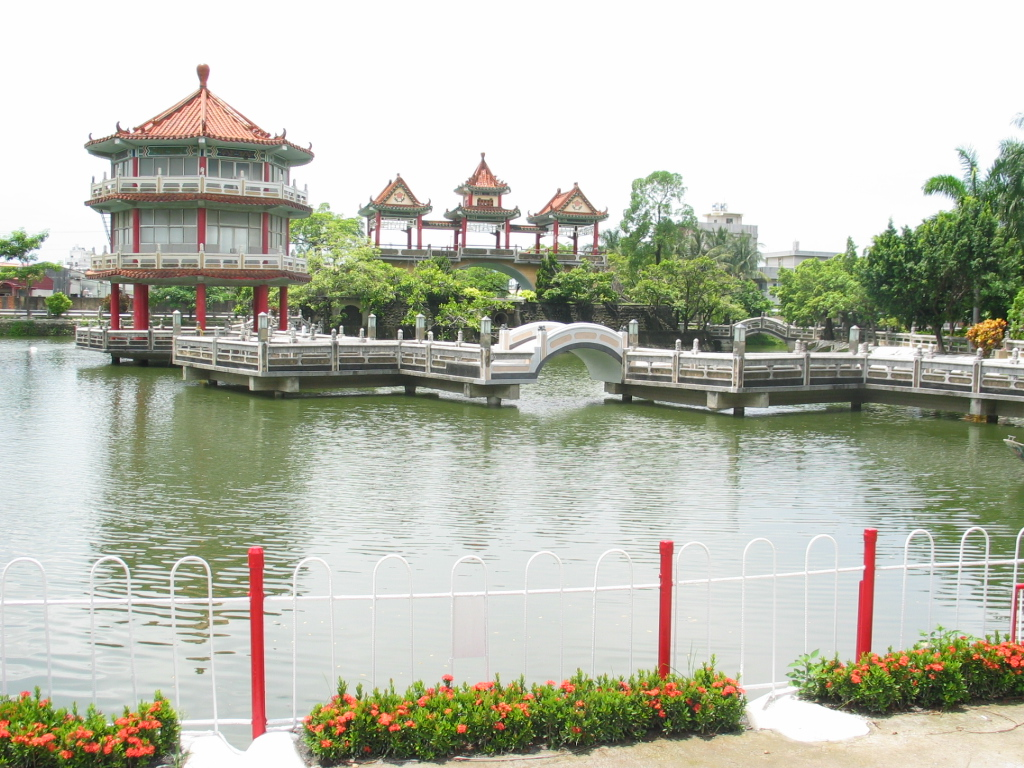 Kun Shan University, Taiwan